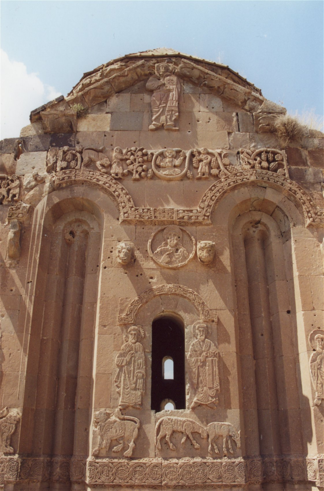 Reliefs on the walls of the Church of Akdamar Island, Lake Van, Eastern Anatolia, Turkey. Picture taken by Christian Koehn (fragwürdig), August 2001